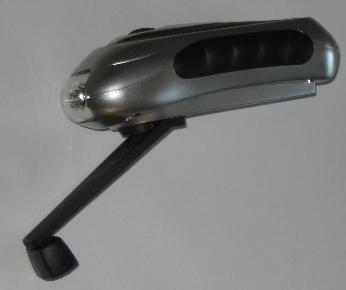 A crank flashligh, a mechanically powered flashlight powered by a crank. Turning the crank spins an electric generator in the flashlight, which charges a lithium rechareable battery, which powers the 3 white LED lamps in the cowling {right). The button on top turns the light on and off. It has 2 levels. The crank, show unfolded, folds away into the body when not in use.